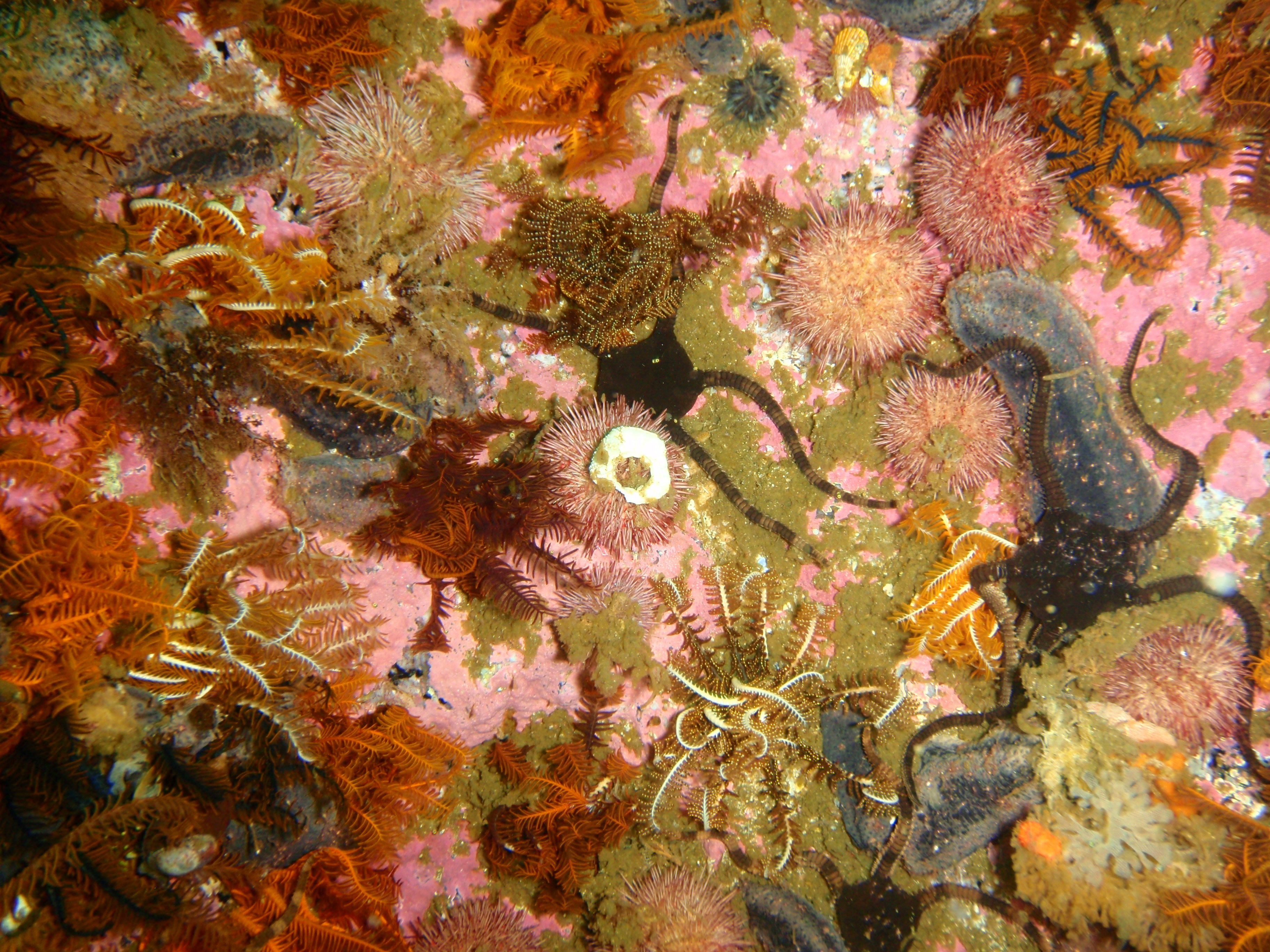 Various echinoderms at North Friskies Pinnacle